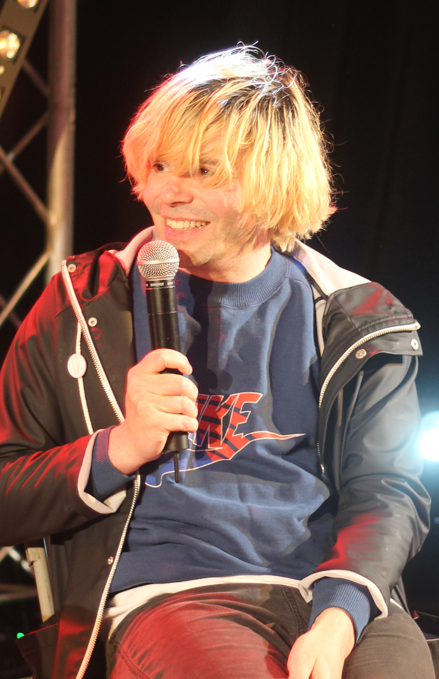 Tim Burgess (The Charlatans) - Salon Livres et Musique 2014, Deauville